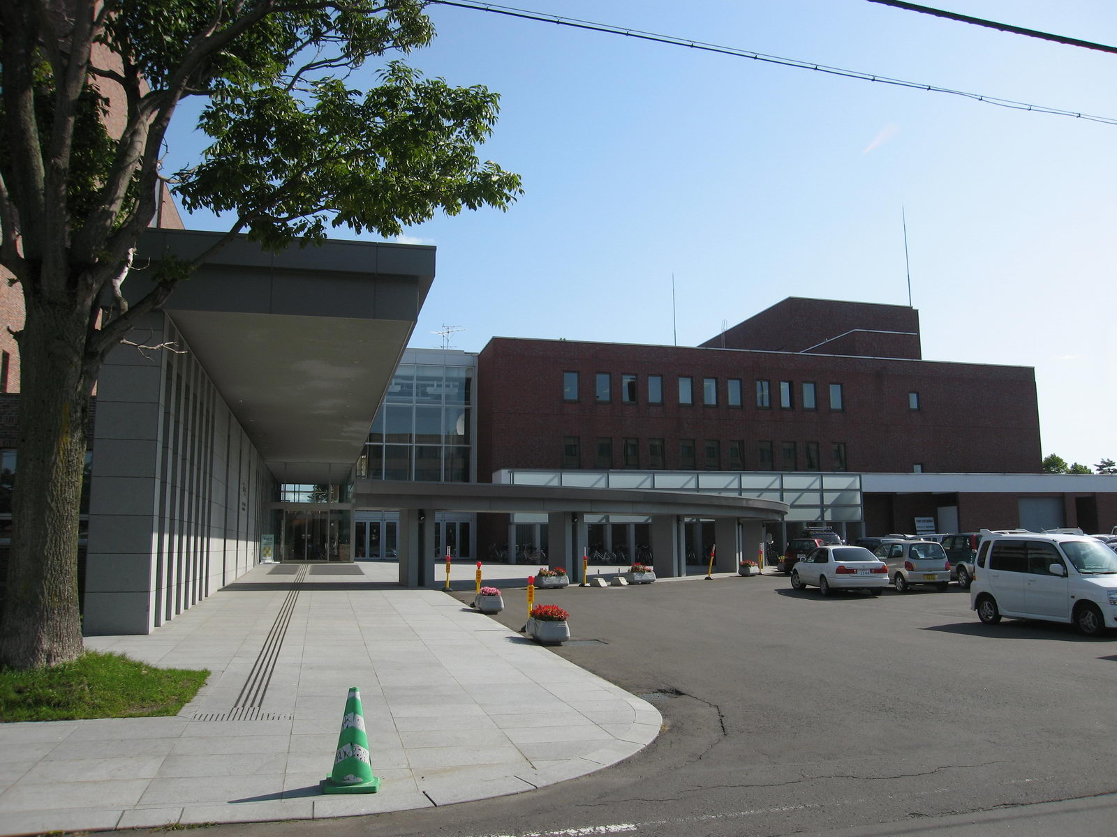 Iwamizawa City Culture Hall "Manamiru"